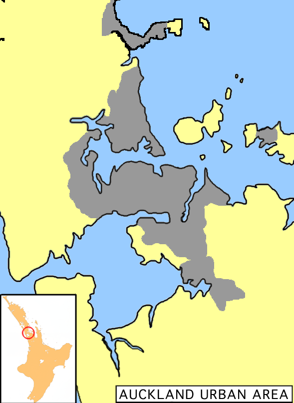 A map of the Auckland urban area. Modified Image:Aucklandmap.png to show that the Hibiscus Coast is part of the urban area.